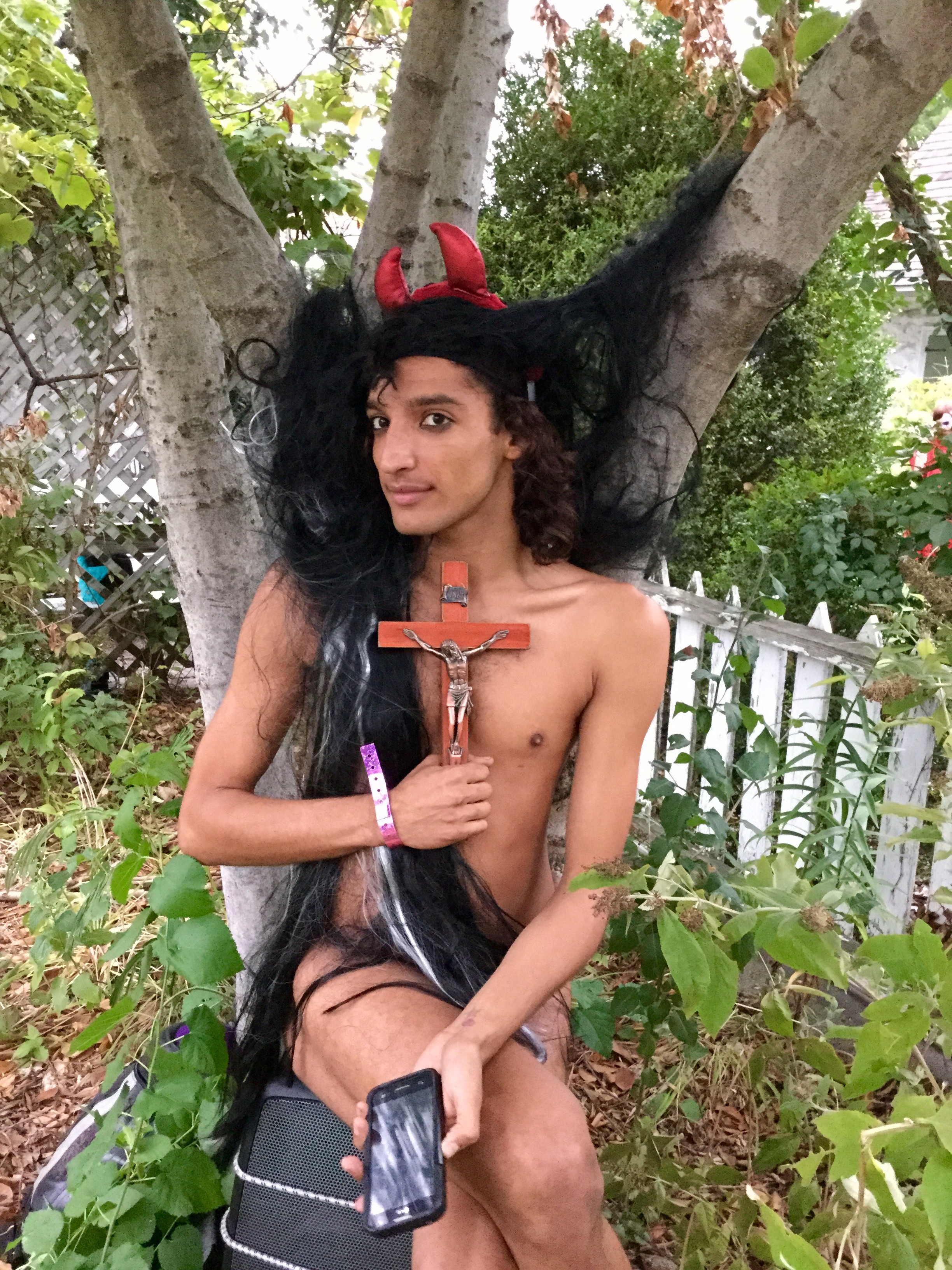 Posing for portrait